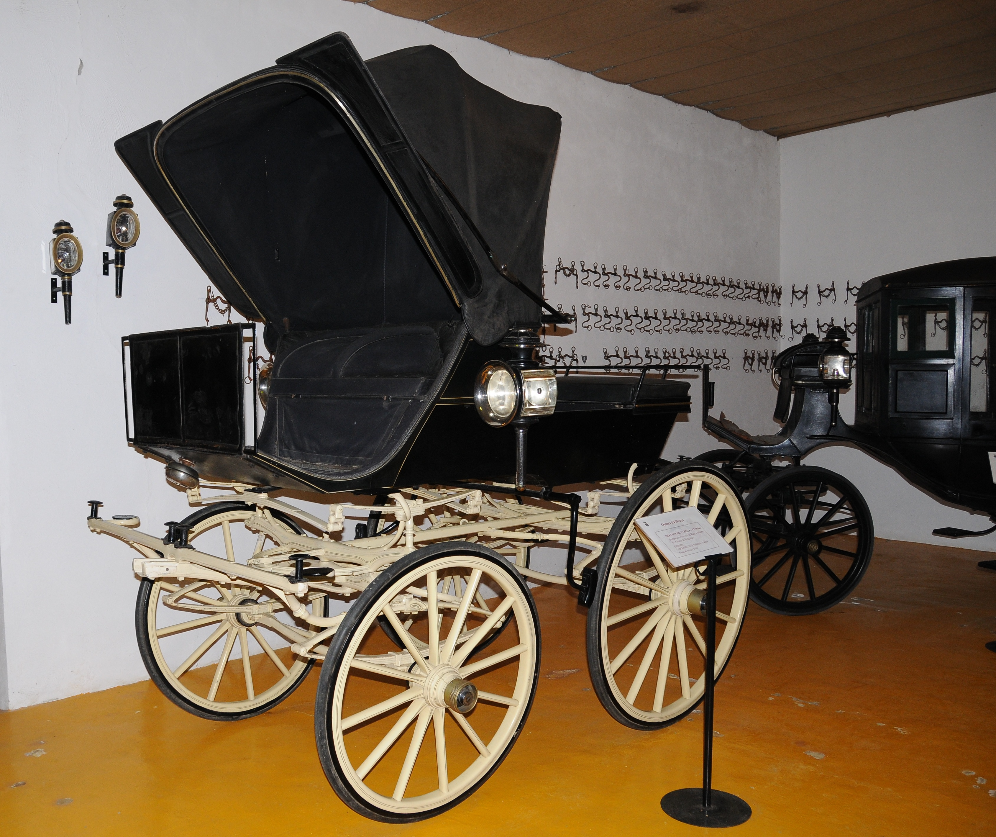 Carriage Phaeton de Cabeça - 12 Molas, built by Labourdette & Fréres - Paris. Now in Museu de carros de cavalos, Santa Leocádia de Geraz do Lima, Viana do Castelo, Portugal.